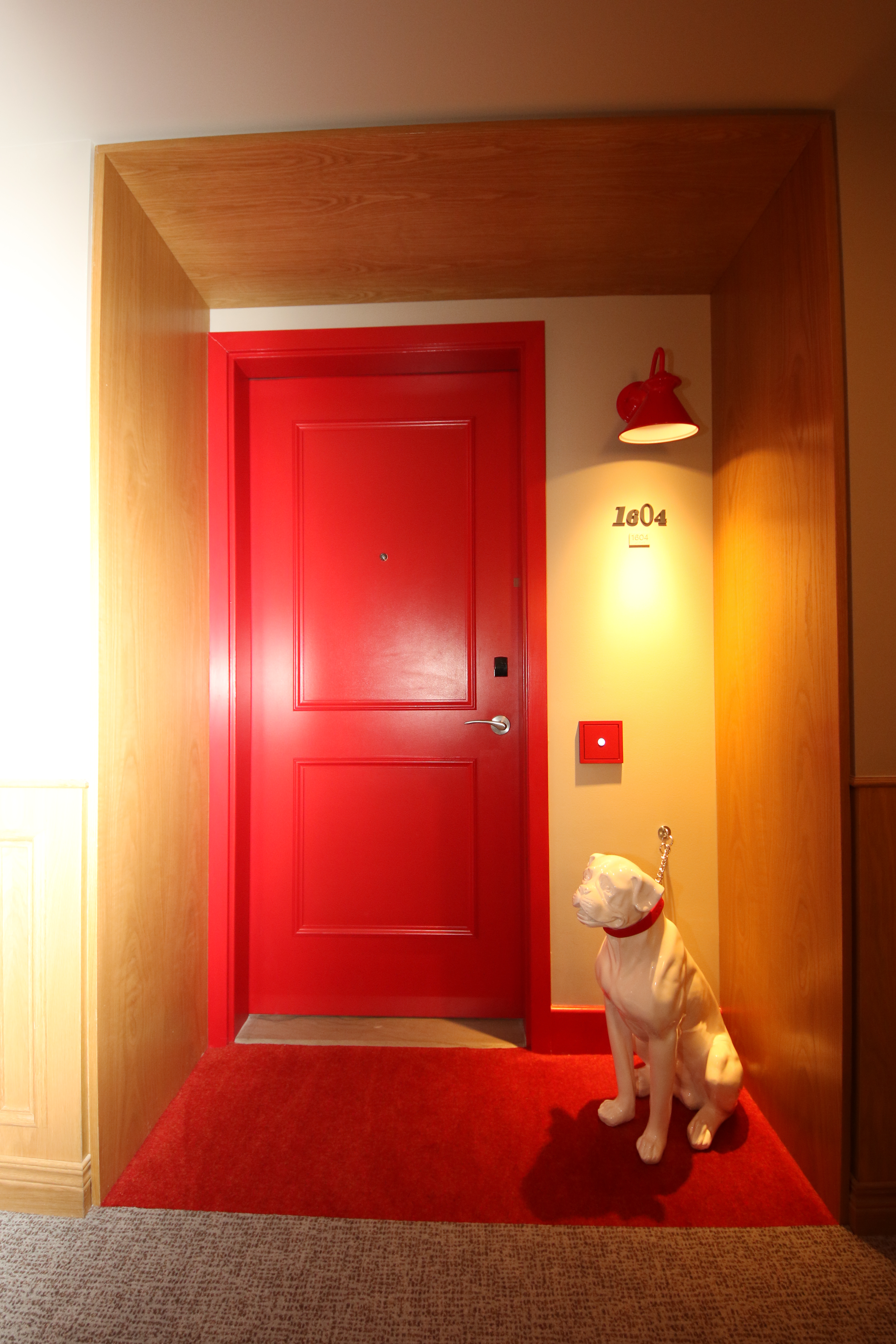 Virgin Hotels Chicago dog friendly door